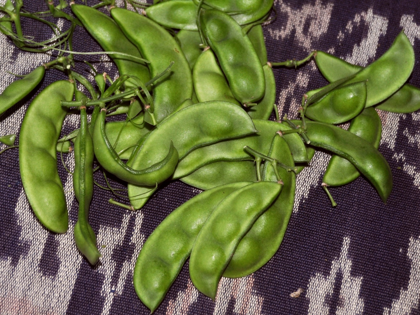 Young pods of Java bean Phaseolus lunatus. From Darmaga, Bogor, West Java, Indonesia.